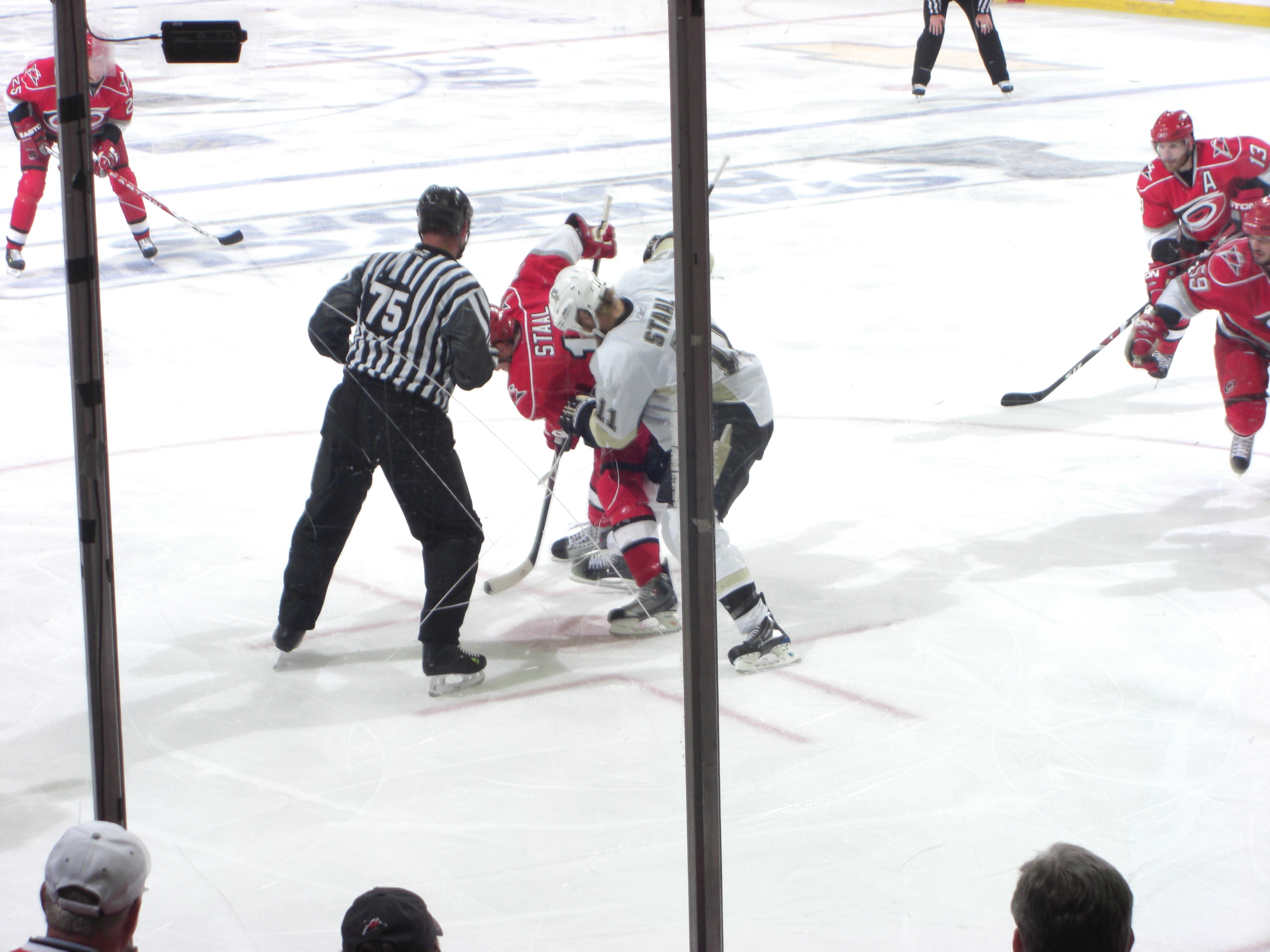 Staal on Staal action